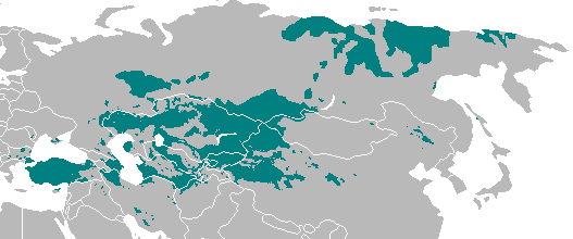 Geographical distribution of Turkic-speaking peoples across Eurasia where Turkic languages are spoken today.